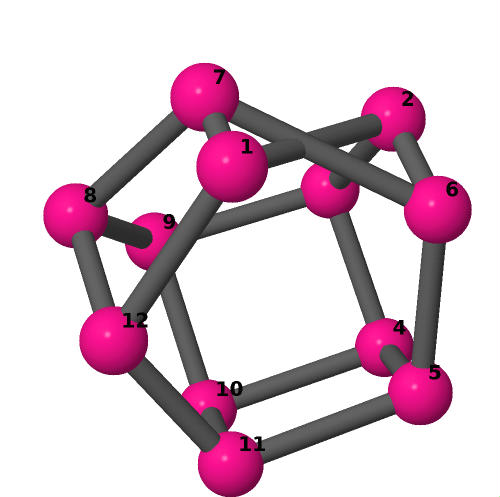 One of 85 simple cubic graphs with 12 vertices.